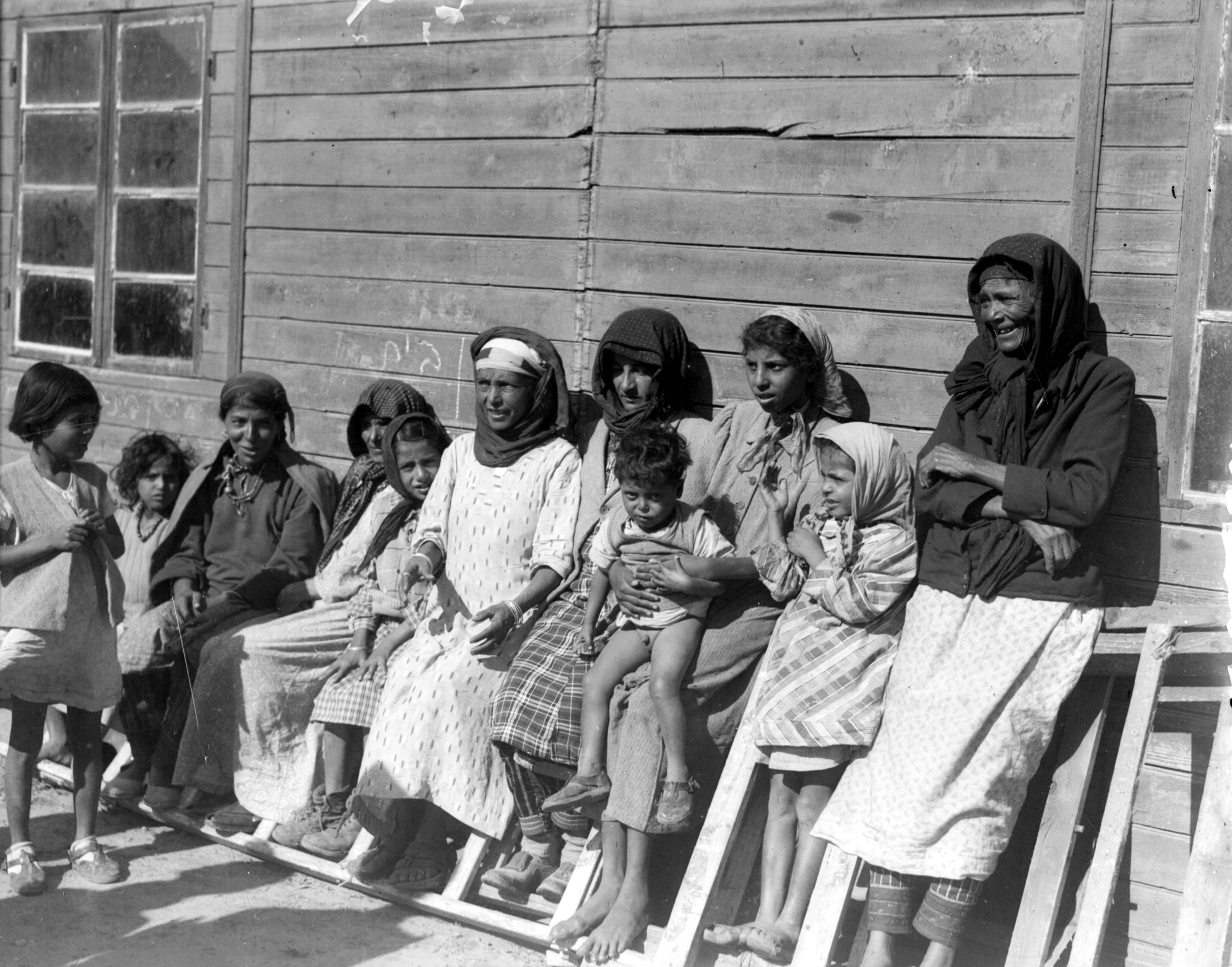 NEW IMMIGRANTS FROM YEMEN AT THE ATLIT RECEPTION CAMP. עולים מתימן במחנה העולים בעתלית.